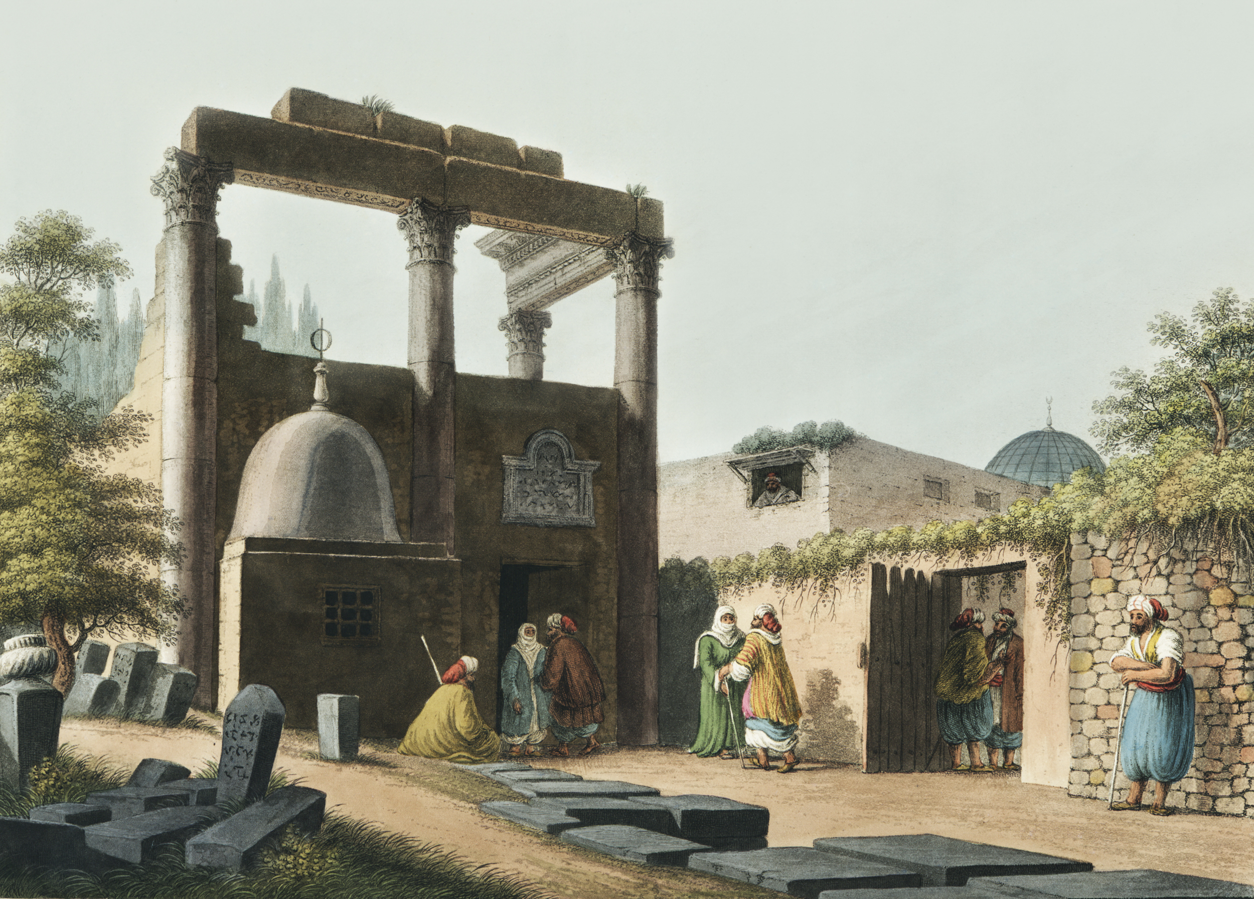 Mosque at Latachia from Views in the Ottoman Dominions, in Europe, in Asia, and some of the Mediterranean islands (1810) illustrated by Luigi Mayer (1755-1803).